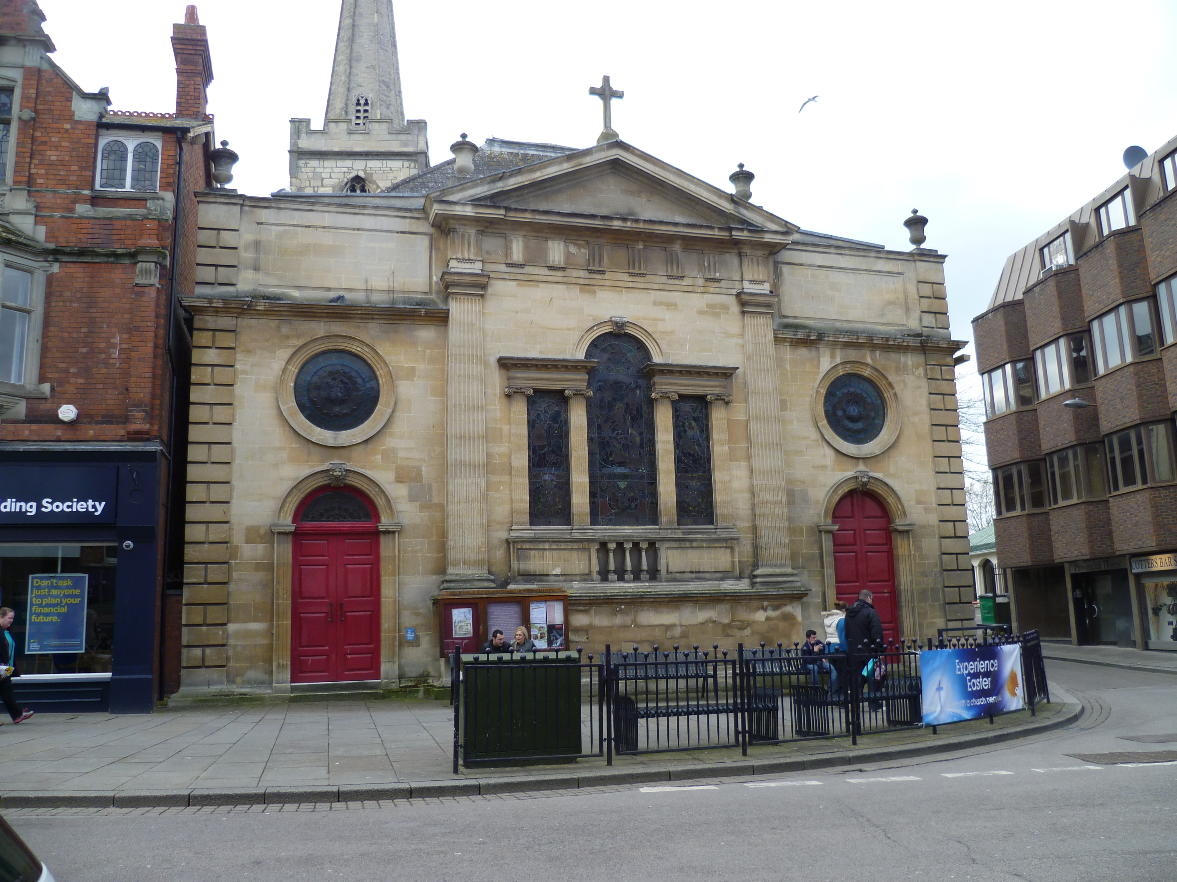 Methodist church of St John the Baptist, Northgate, Gloucester, seen from the southeast